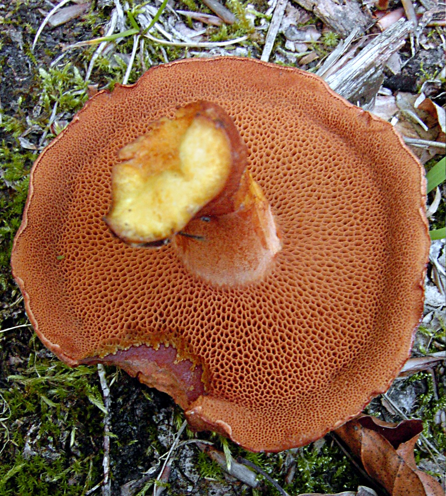 Chalciporus piperatus from a young spruce plantation in the Taunus (Hesse /Germany)